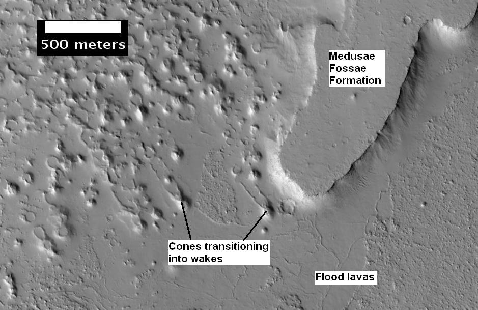 Medusae Fossae Remnant with rootless cones, as seen by hirise. Location is 11.52 N and 204.99 E.